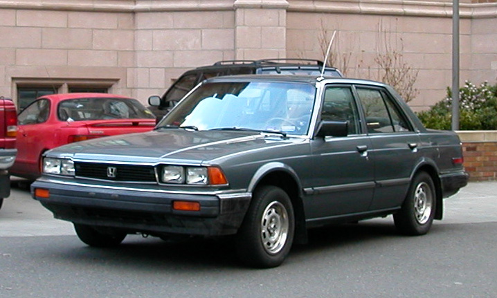 1983 Honda Accord, purchased new in Guam and brought to the United States the following year.